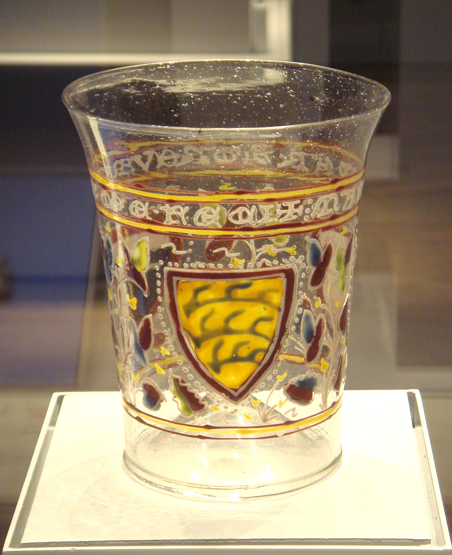 Venitian_glass_circa_1330_with_enamel_decoration_derived_from_Islamic_technique_and_style.